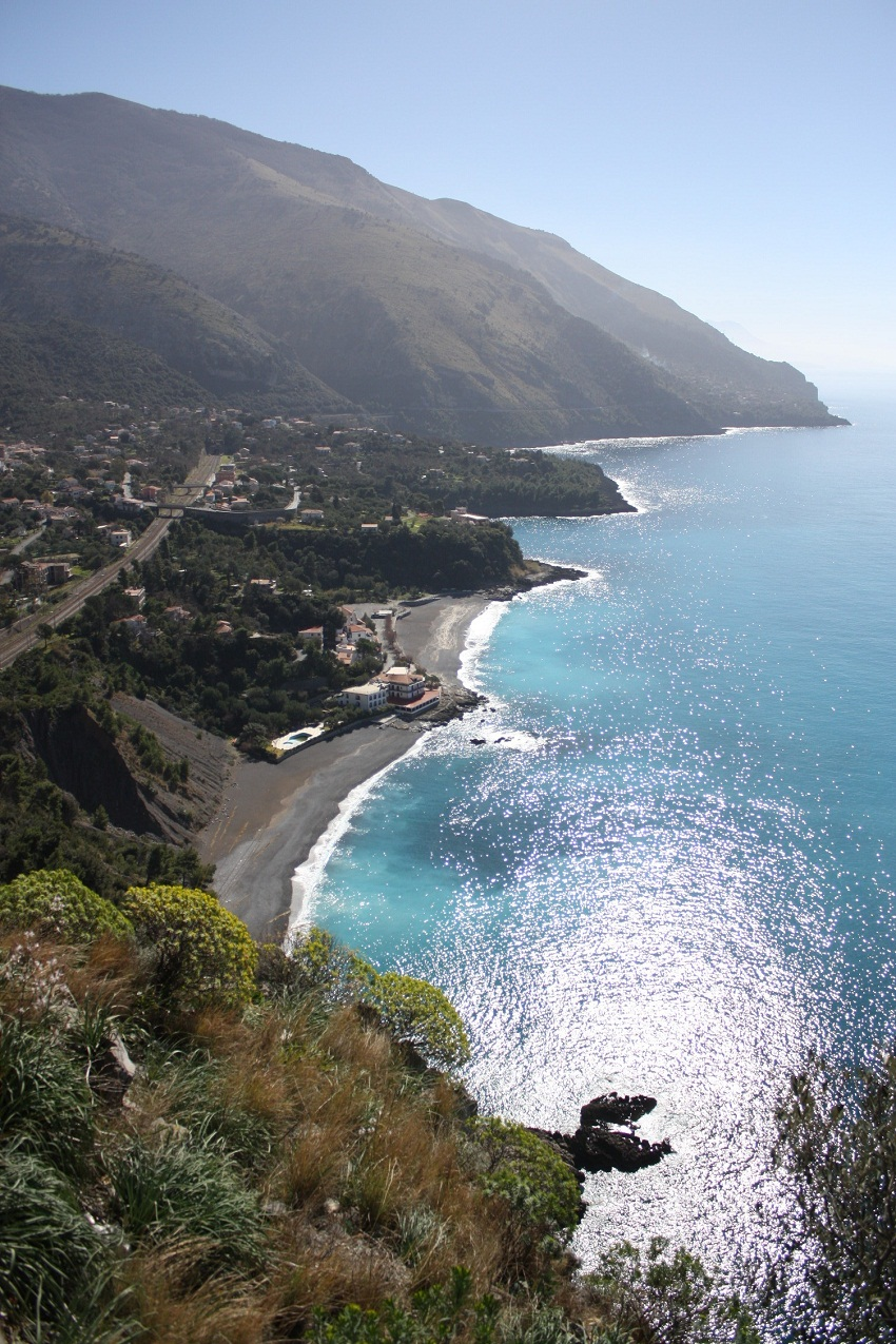 Maratea coast near Acquafredda.